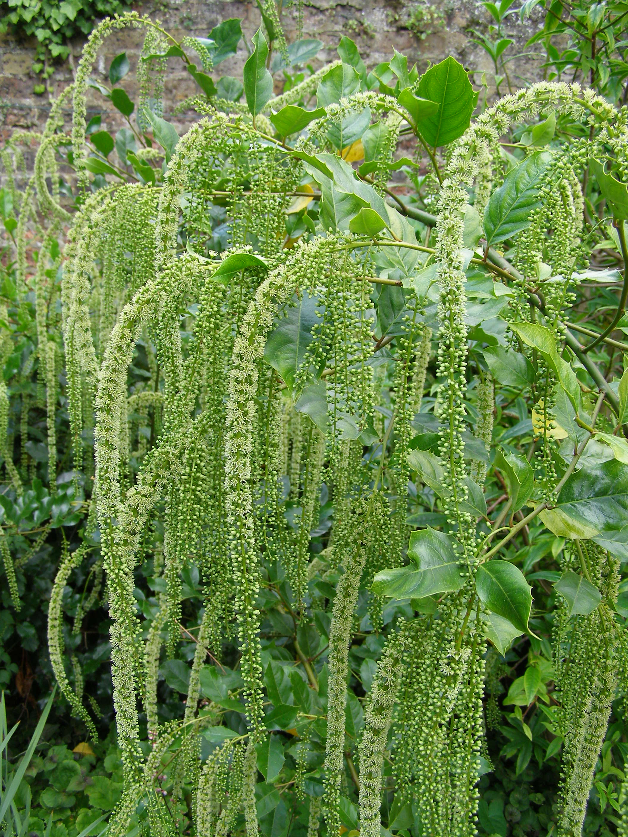 Flower racemes and foliage of Itea ilicifolia.